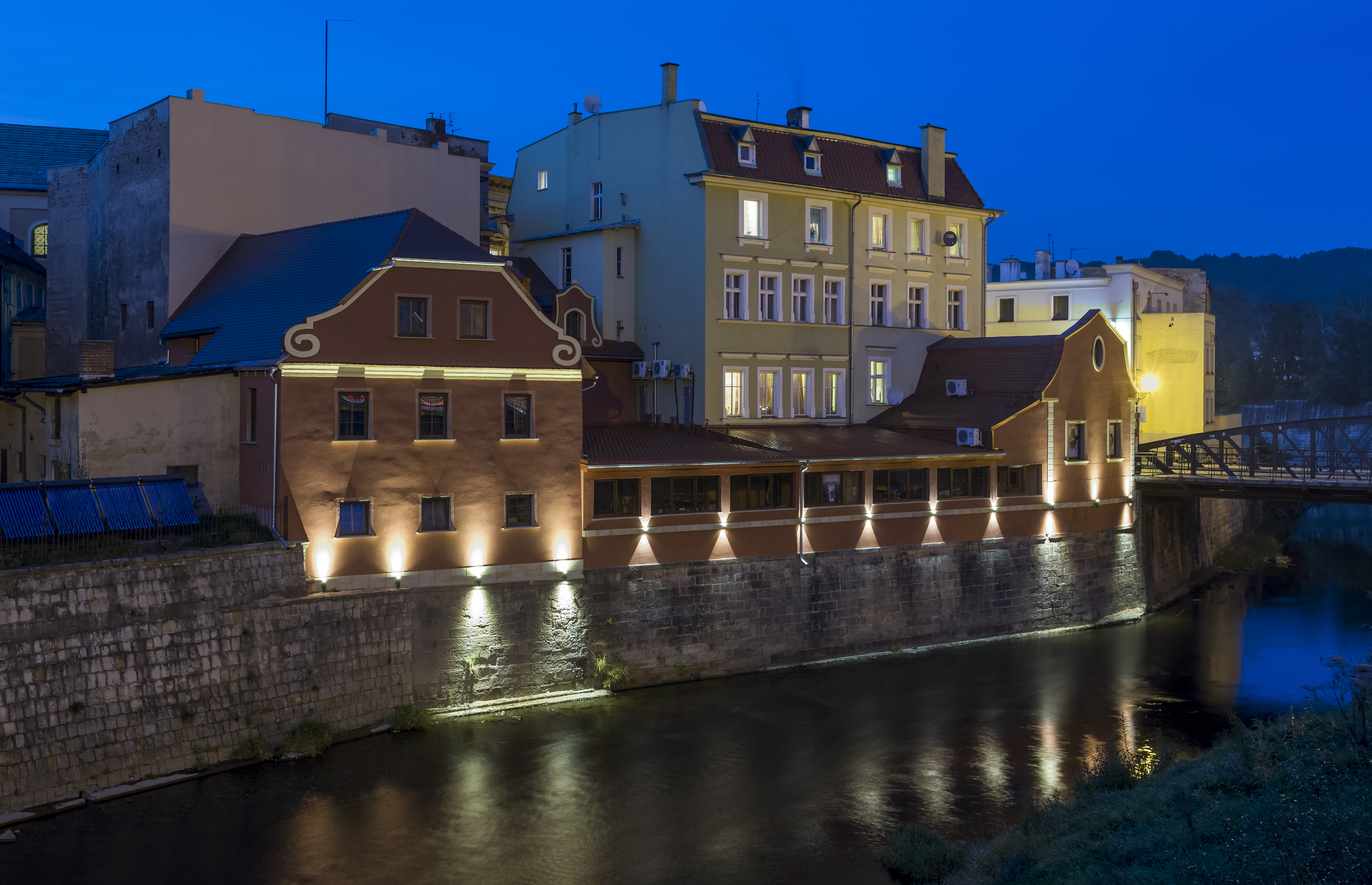 Buildings over Nysa Kłodzka river in Kłodzko Ta fotografia przedstawia zabytek wpisany do rejestru zabytków pod numerem ID 592676